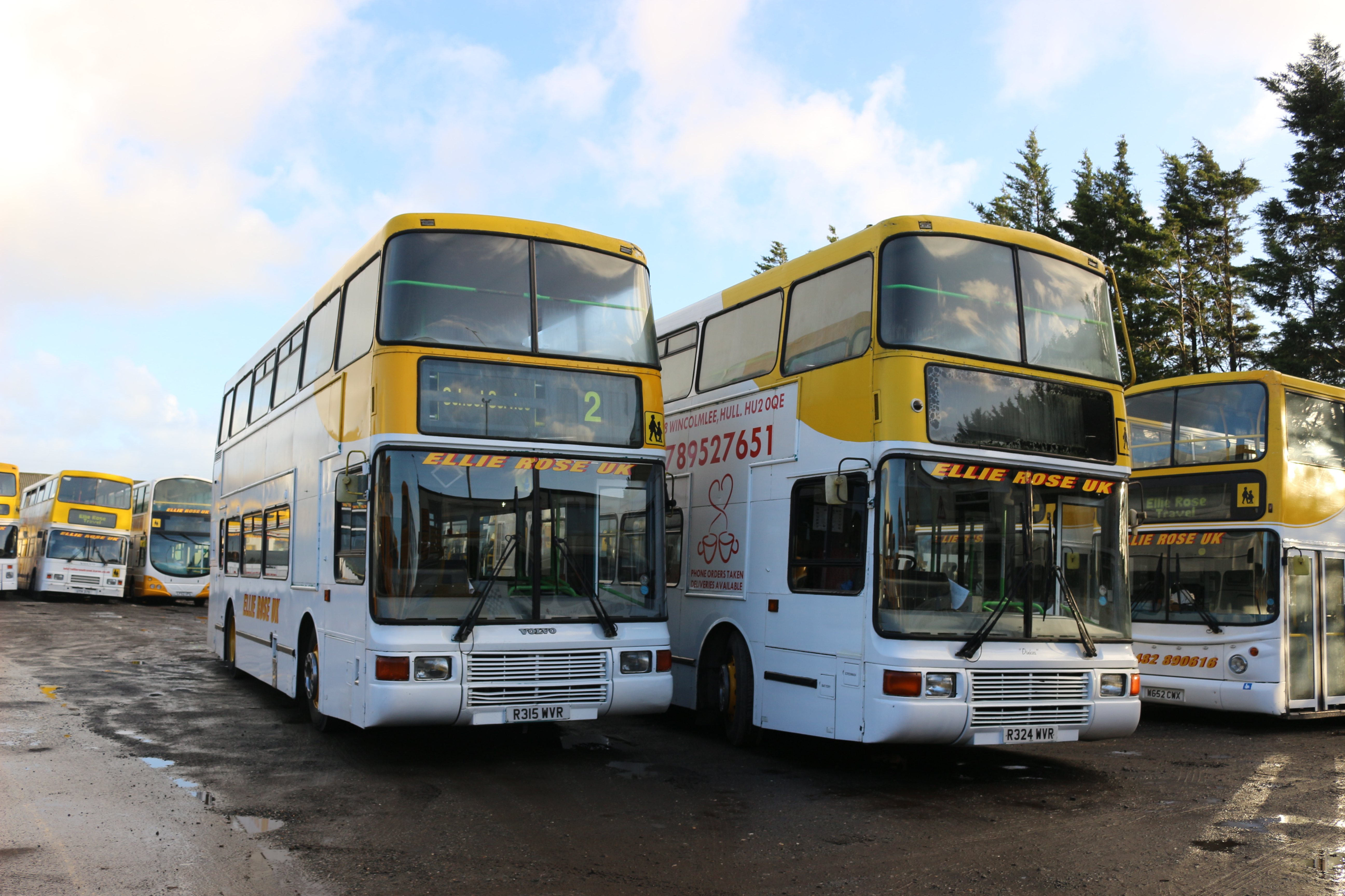 A selection of buses at the Ellie Rose depot in Hull. In the foreground are 2 Volvo Olympians new to MTL, Merseyside